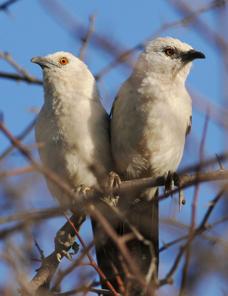 Southern Pied-babbler, Turdoides bicolor at Borakalalo National Park, Northwest Province, South Africa